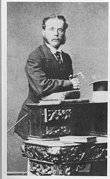 Alfred Dickens, Charles and Catherine Dickens's son in 1865.